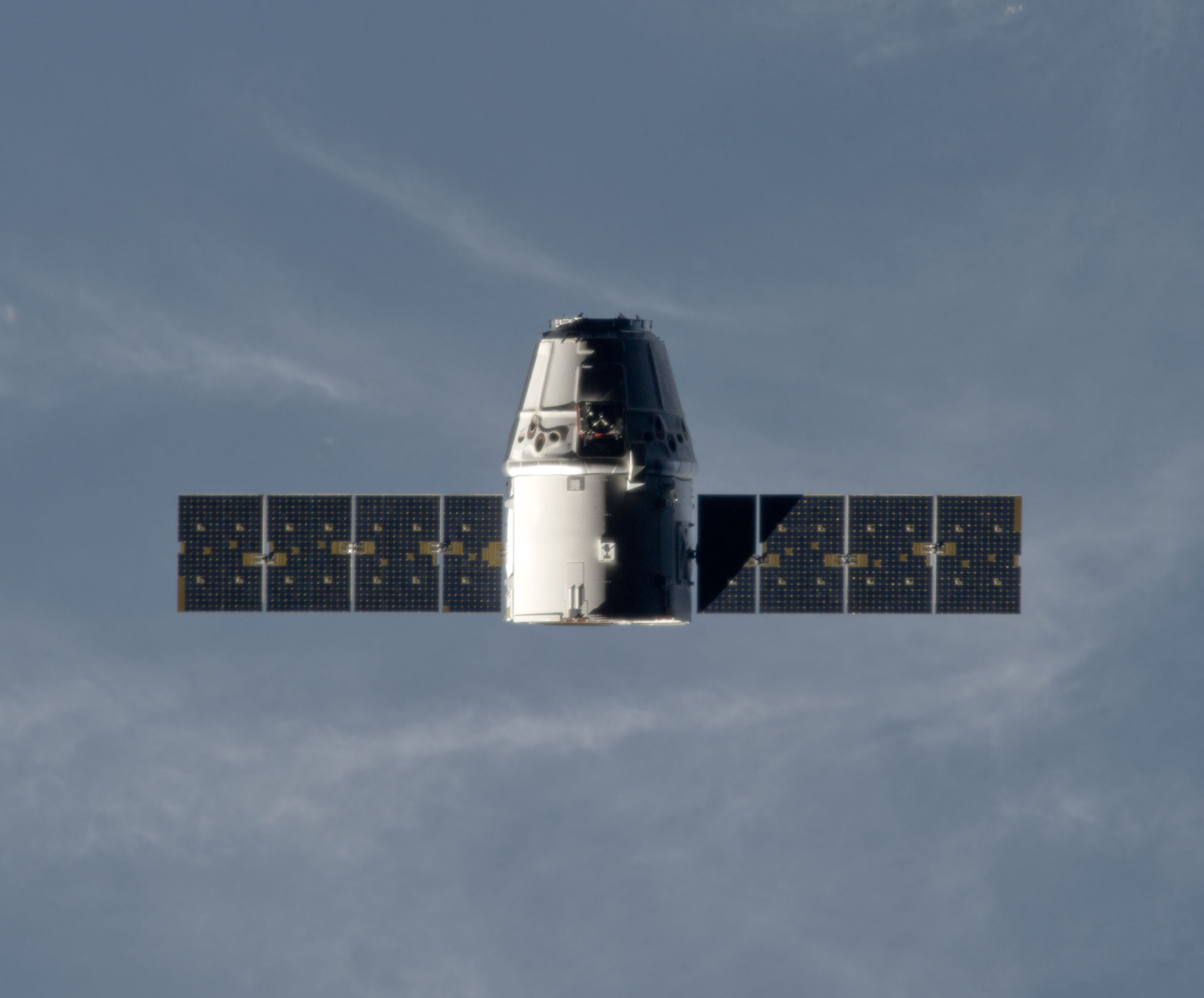 ISS033-E-011397 (10 Oct. 2012) --- The SpaceX Dragon commercial cargo craft makes its relative approach to the International Space Station prior to grapple by the station's Canadarm2 robotic arm, controlled by Expedition 33 crew members.